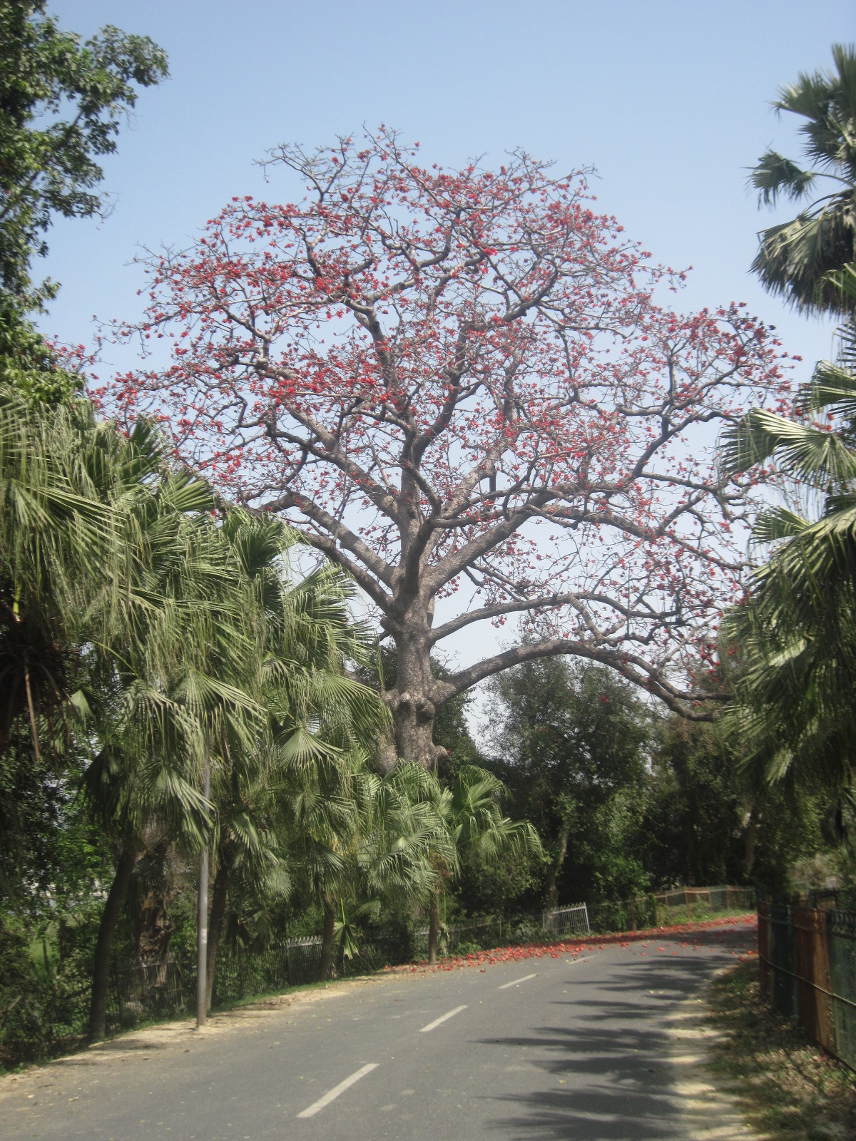 Semal (Bombax ceiba). Faizabad, India